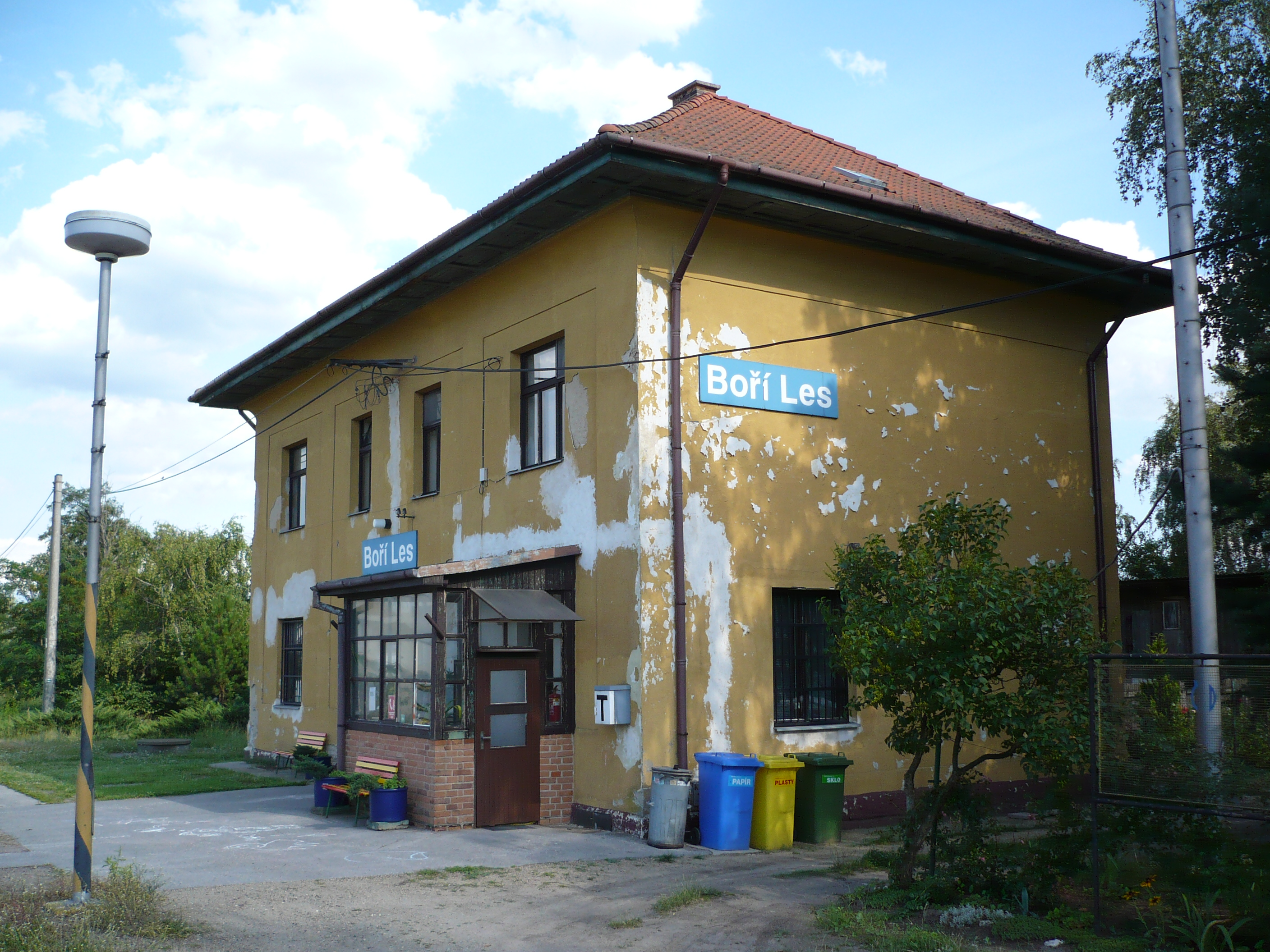 Railway station Boří les